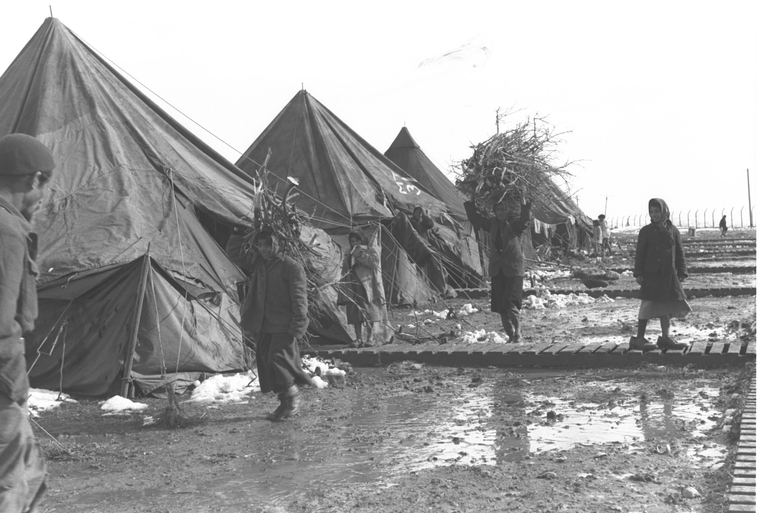 Gathering wood for fires to dispel the bitter cold, Rosh Ha'Ayin, Yemenite immigrants.